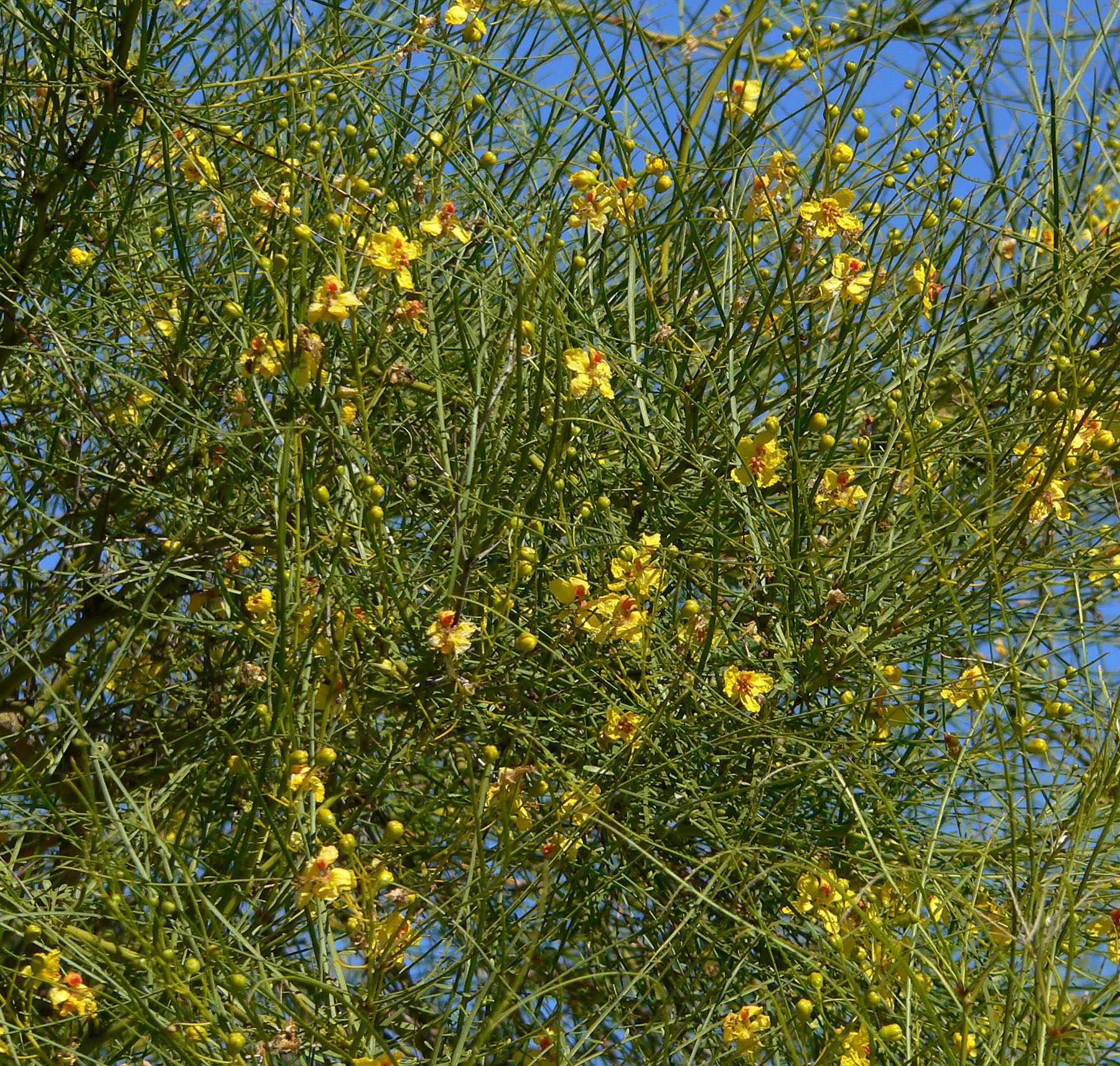 Parkinsonia aculeata at the University of California Botanical Garden, Berkeley, California